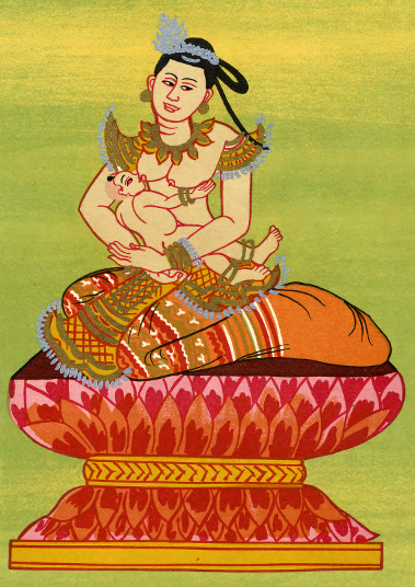 Anauk Mibaya nat (spirit), 34th in the official pantheon of Burmese nats